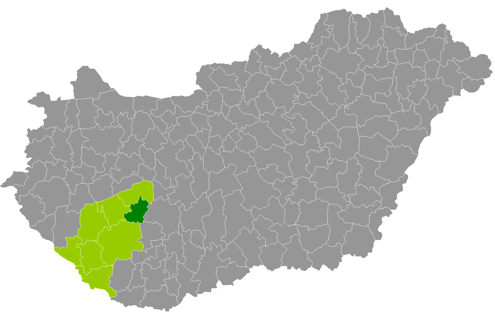 Location of Tab District, Somogy, Hungary